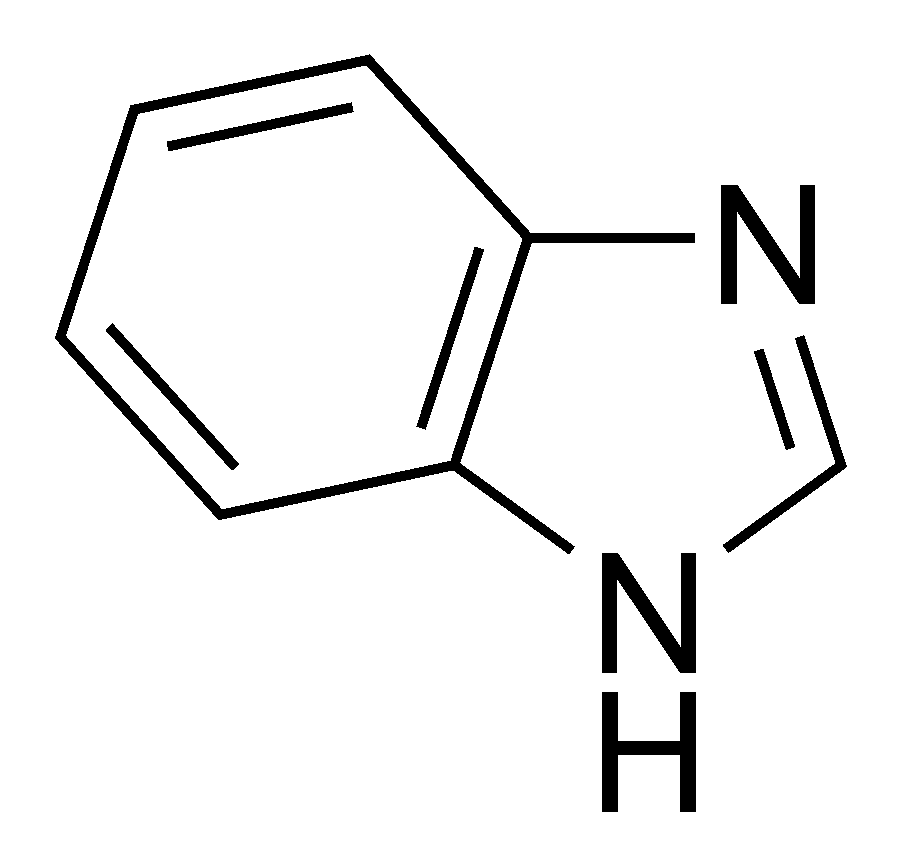 Chemical structure of benzimidazole, a simple aromatic ring